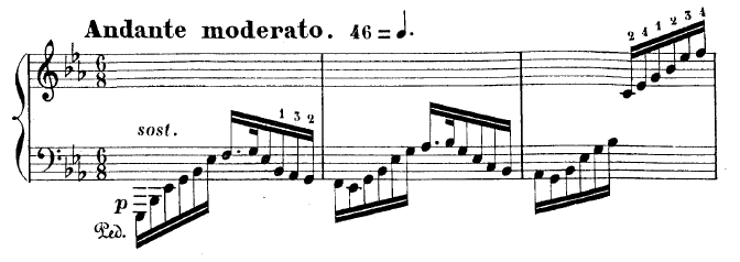 The opening of the 1st movement of Jules Massenet's piano concerto.